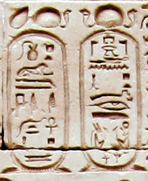 Cartouches of Ptolemy VIII in Edfu Temple